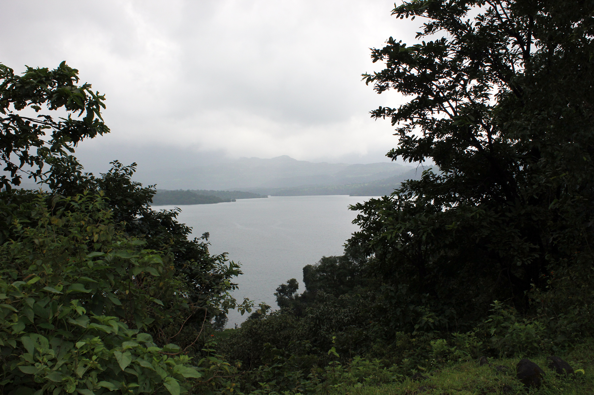 Arthur Lake Formed by Wilson Dam